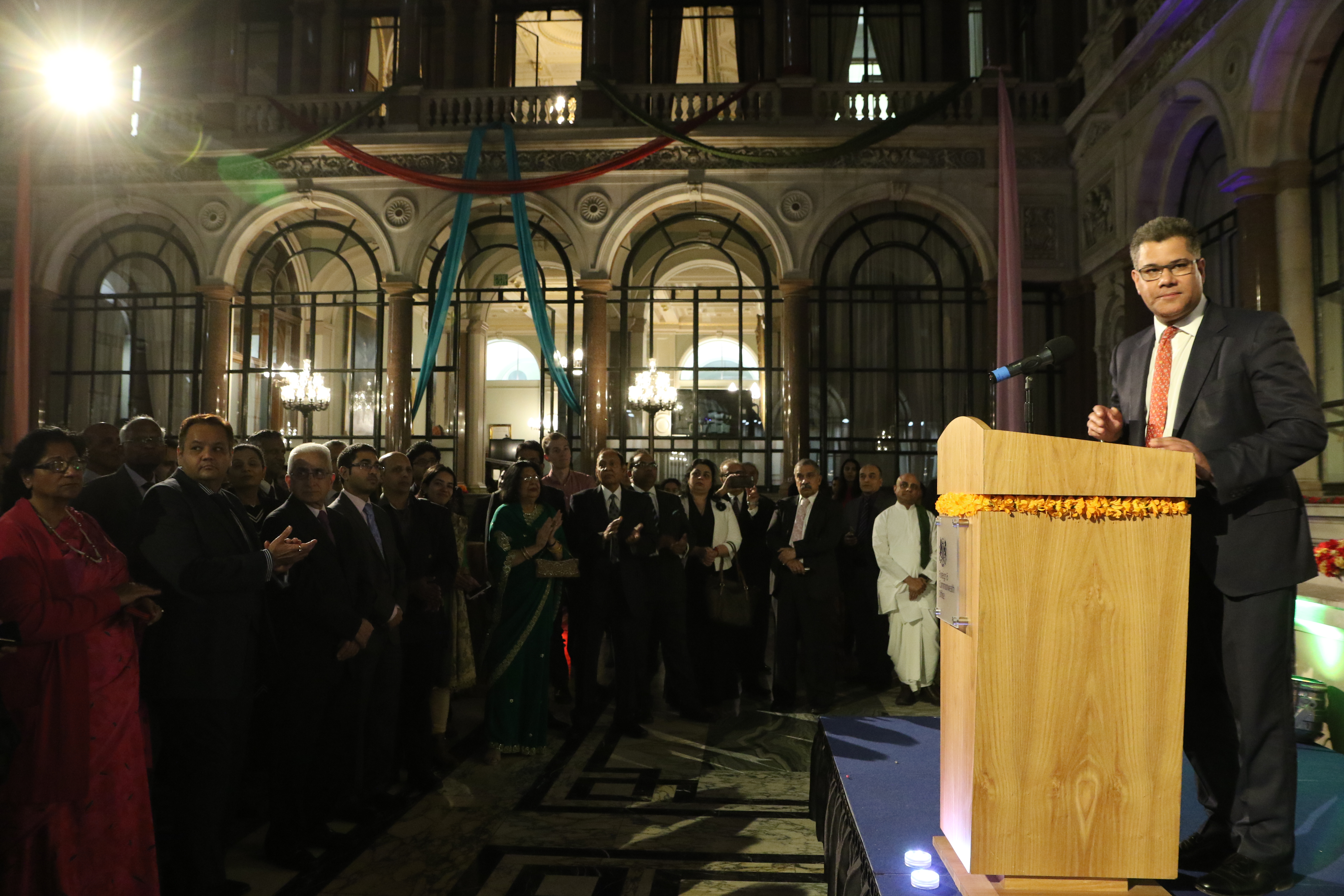 Foreign Office Minister Alok Sharma speaking at a Hindu festival of Holi event at the Foreign & Commonwealth Office in London, 8 March 2017.